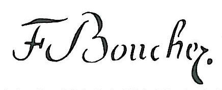 autograph of the painter François Boucher